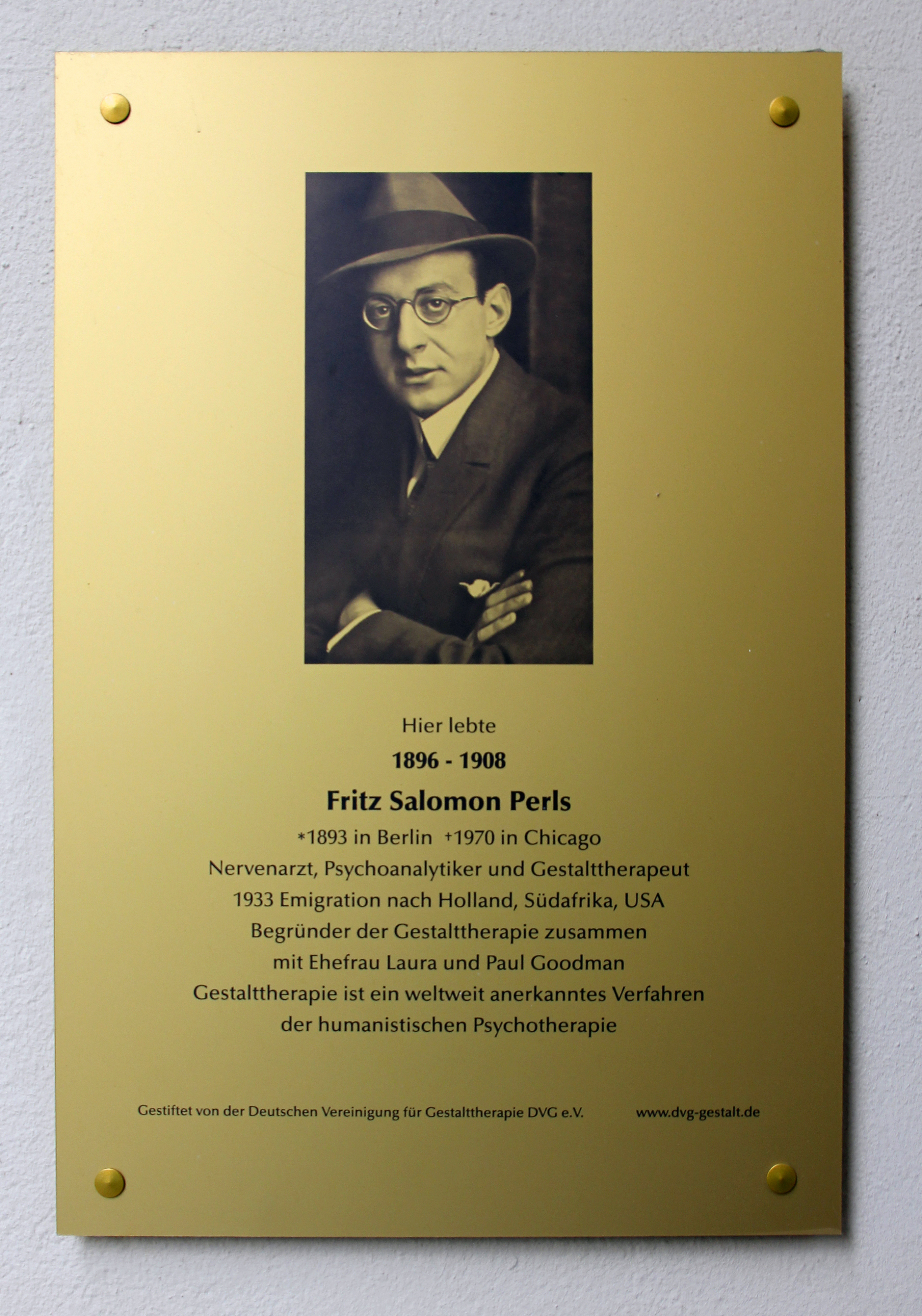 Memorial plaque, Fritz Salomon Perls, Ansbacher Straße 13, Berlin-Schöneberg, Deutschland.